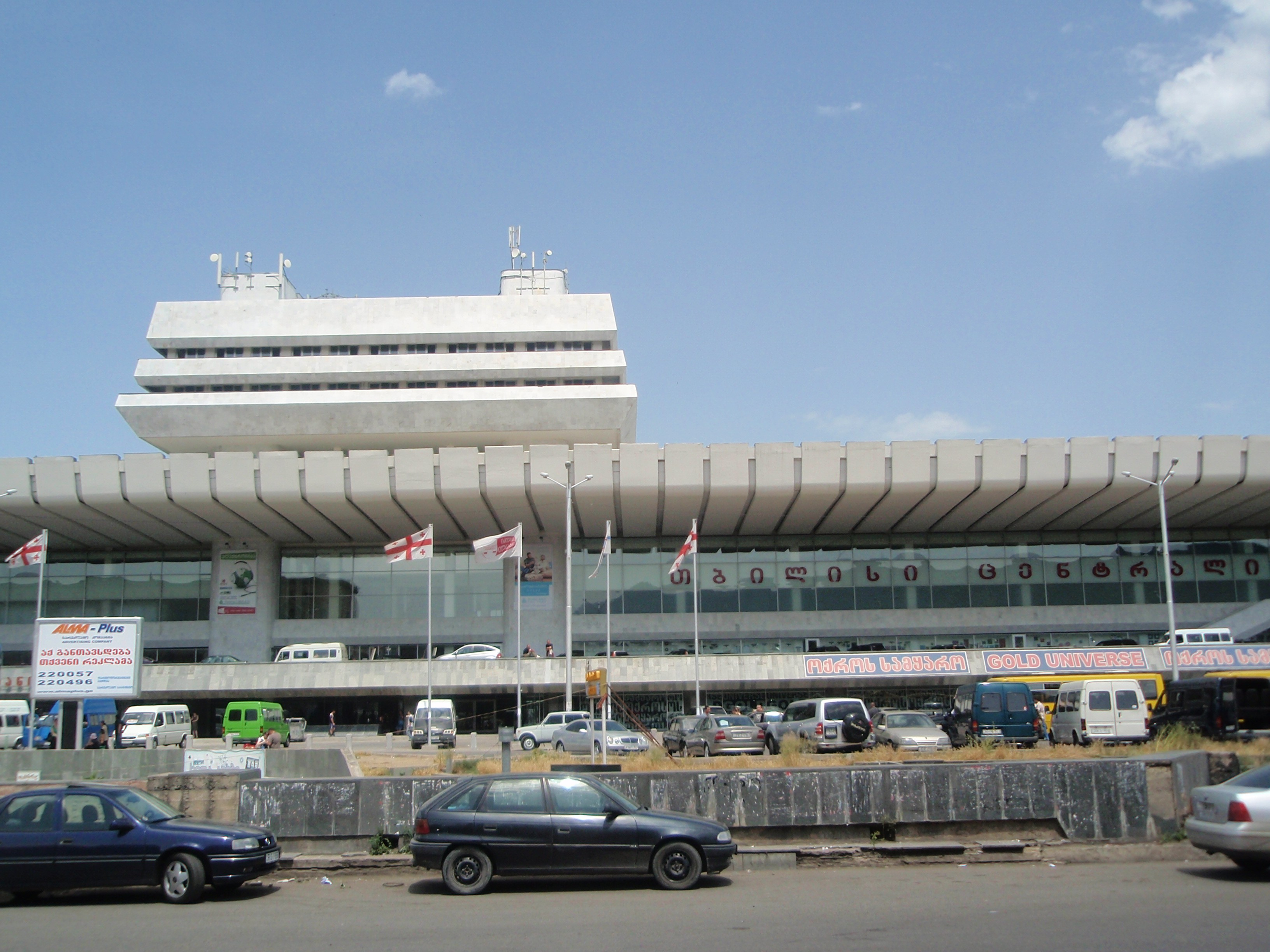 Tbilisi Central Railway Station in June 2010